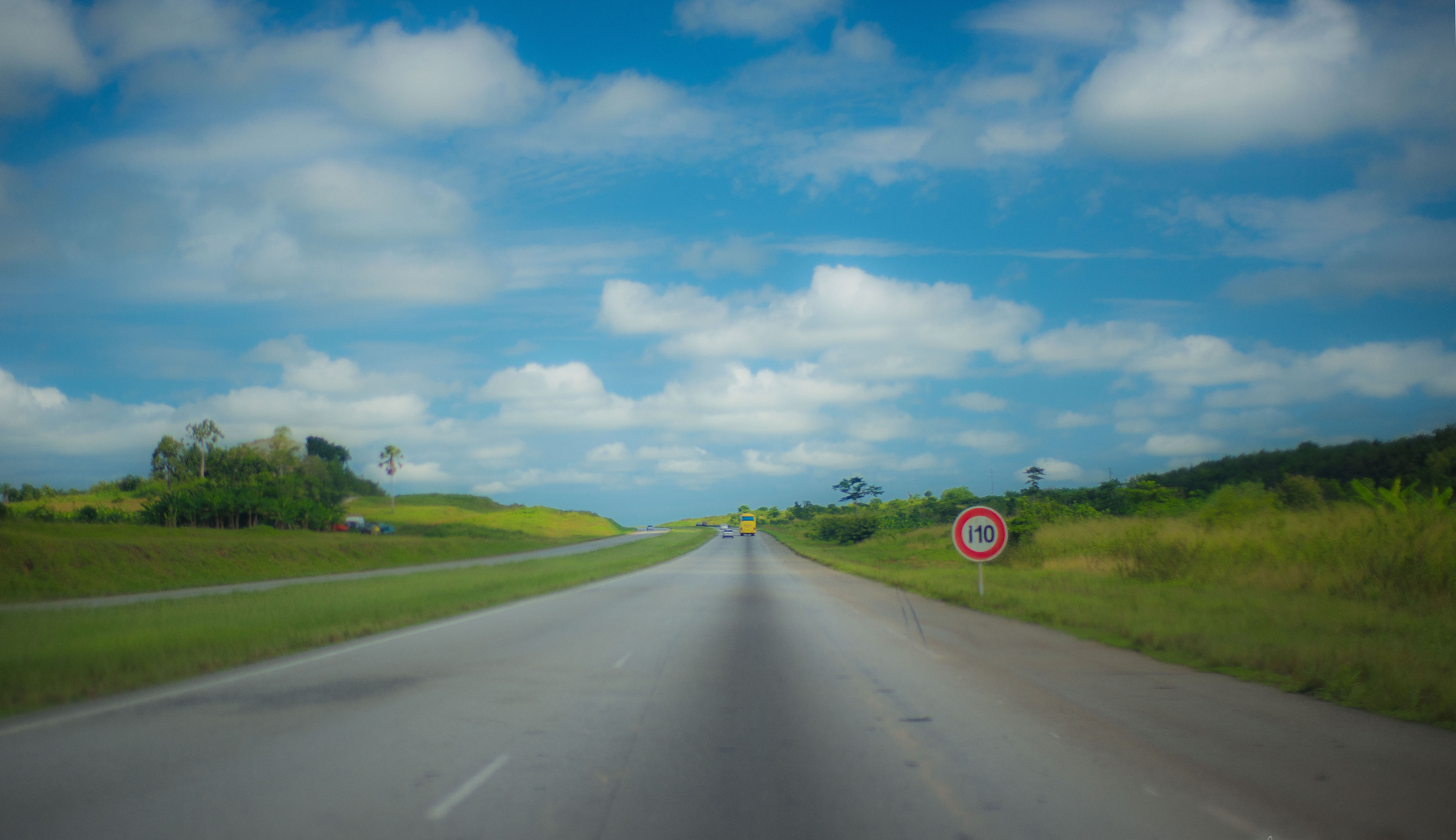 L'autoroute qui reliant Abidjan à plusieurs ville du pays et autres pays de la sous-région This is an image with the theme "Africa on the Move or Transport" from: Ivory Coast